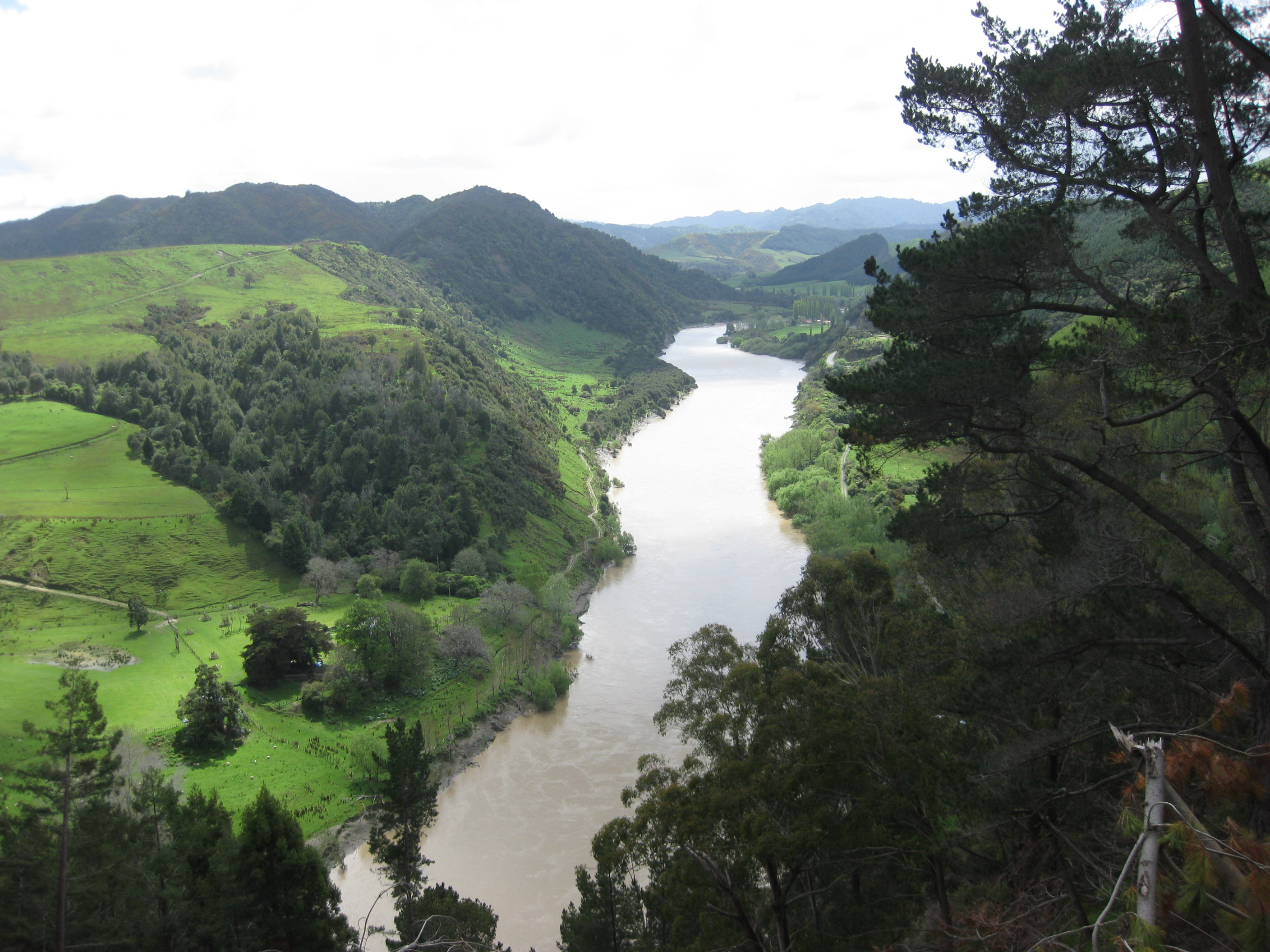 The Whanganui River is a major river in the North Island of New Zealand.